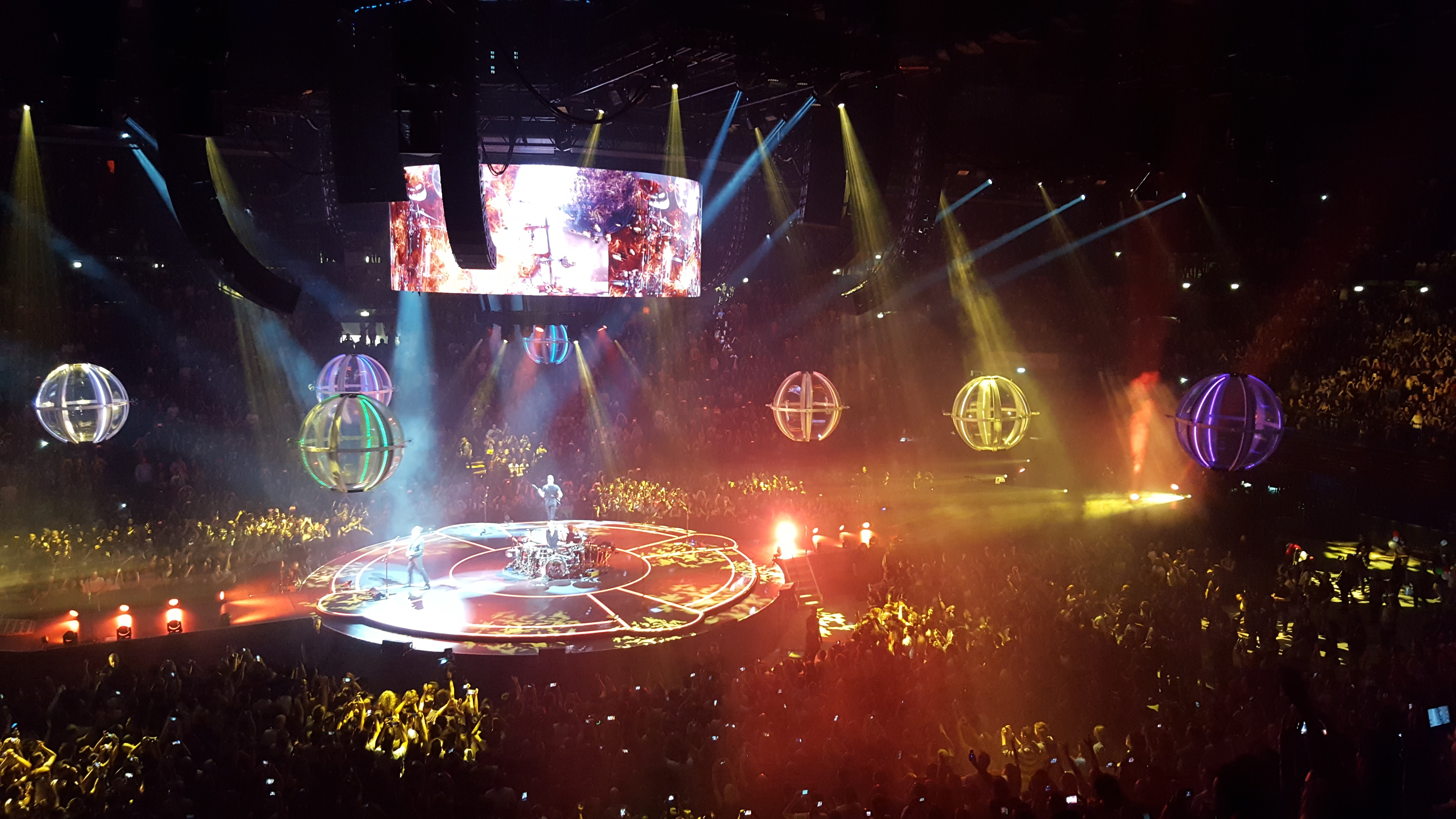 Mediolanum Forum Milano